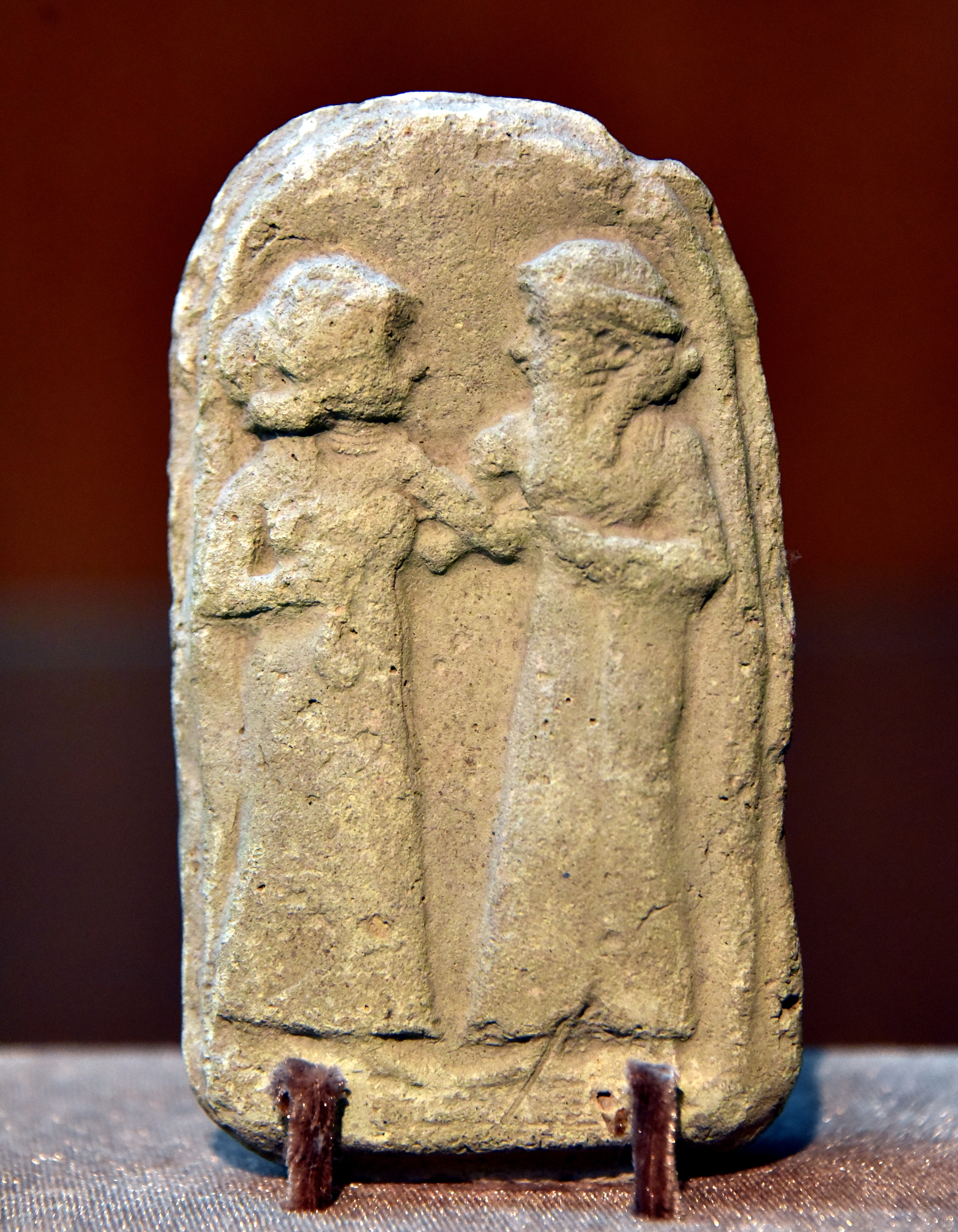 Man and woman, Old-Babylonian period, 2003-1595 BCE, fired clay plague from Ur, Southern Mesopotamia, Iraq. The plaque was probably used for domestic purposes. Very similar, and almost identical, plaques are in the British Museum and the Oriental Institute (Chicago). The Sulaymaniyah Museum, Iraqi Kurdistan.